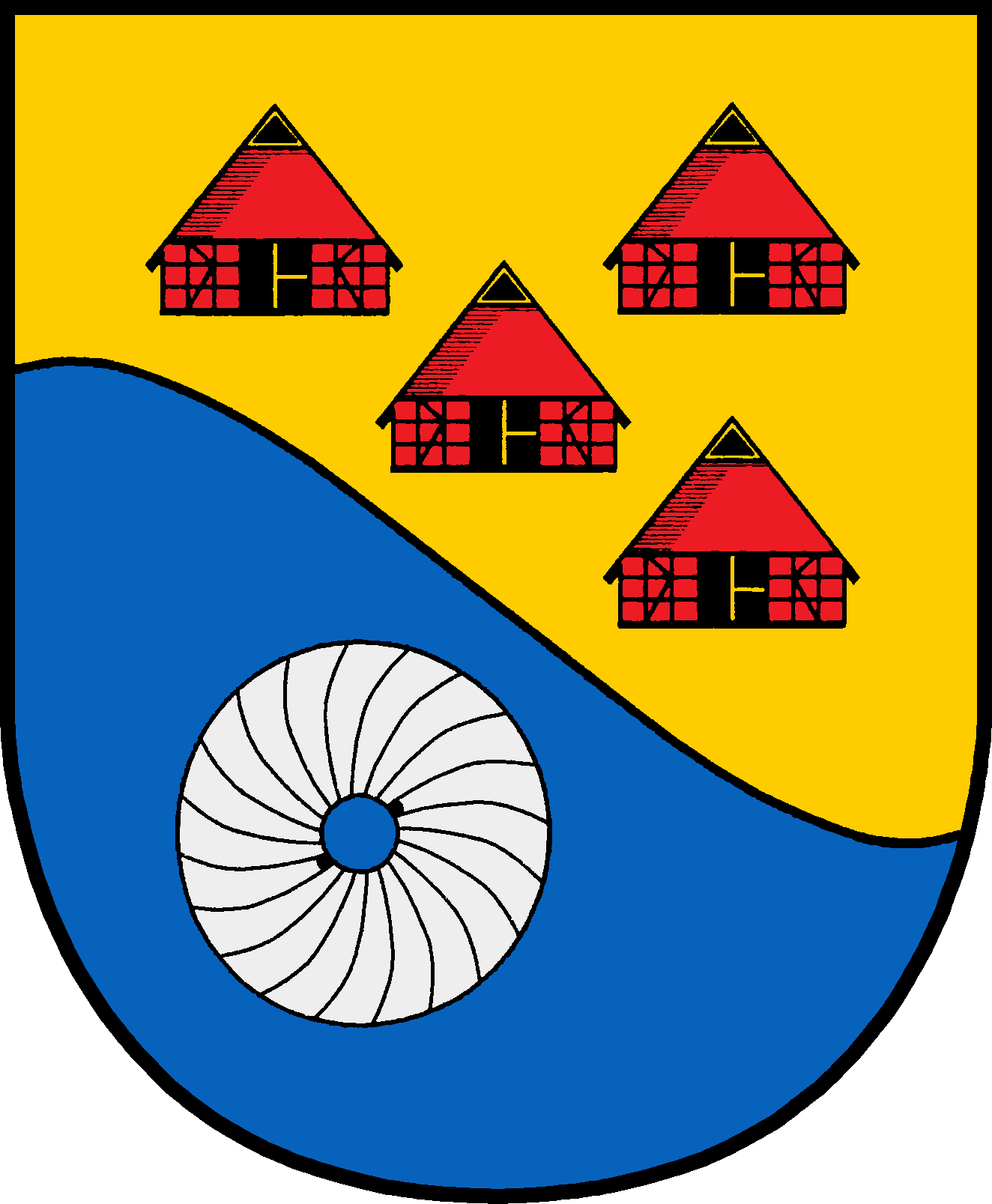 Coat of arms of the municipality Weddelbrook in Schleswig-Holstein, Germany.